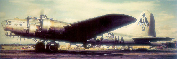 B-17G of the 379th Bomb Group, RAF Kimbolton England 1944/45 Source: Freeman, Roger A. The Mighty Eighth, The Color Record, 1991. Source of photos given as United States National Archives from origionals taken by the United States Army Air Forces.